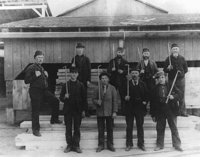 Photograph, Men holding scaling sticks, Hawksbury Mills lumber mill, Hawksbury, ON, about 1895, Anonymous, Silver salts on paper - Gelatin silver process - 20 x 25 cm